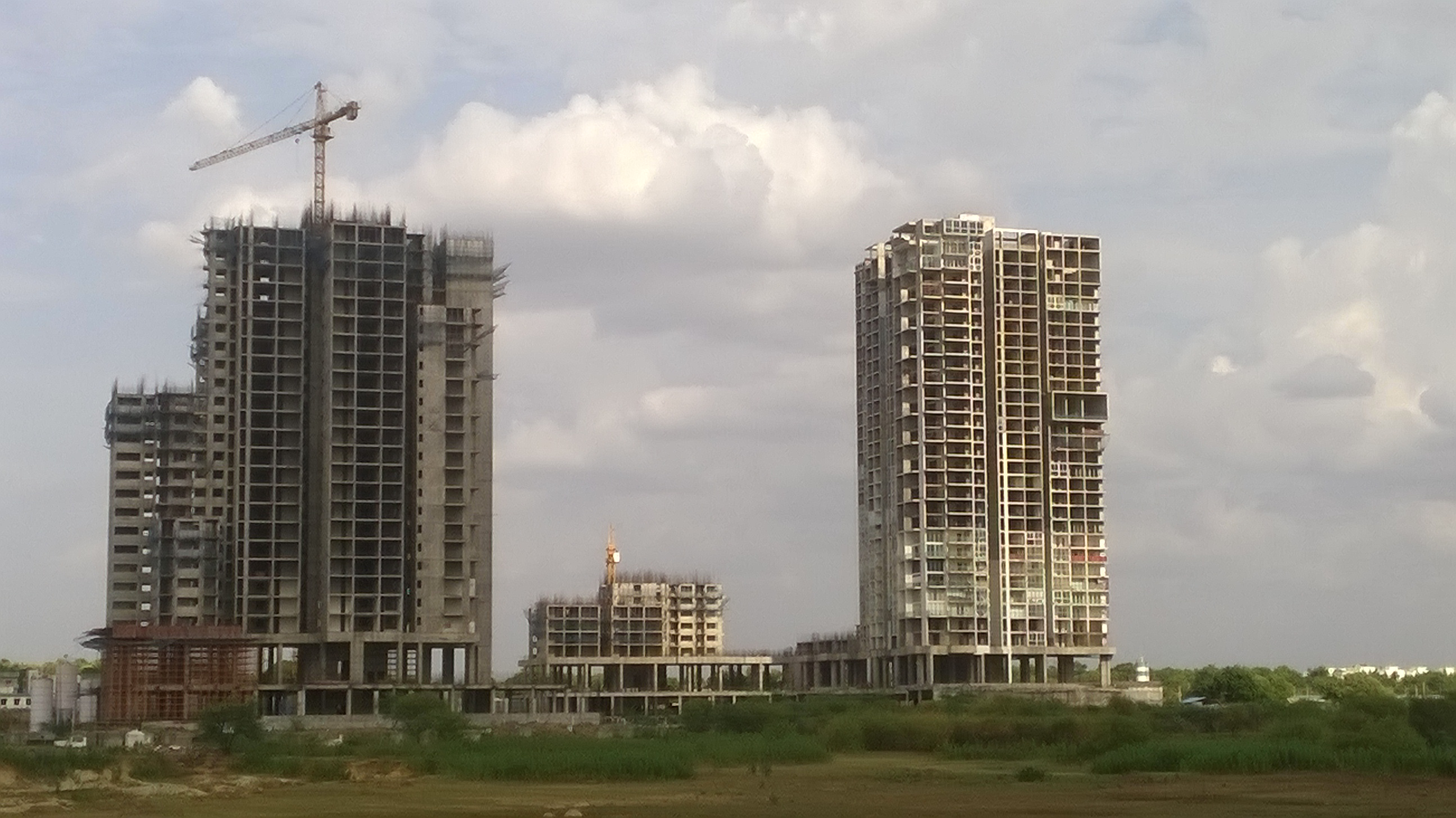 Alien Space Station, Tellapur U/C